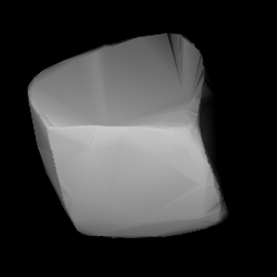 3D convex shape model of 920 Rogeria, computed using light curve inversion techniques. J. Hanuš, J. Ďurech, M. Brož, B. D. Warner (June 2011). "A study of asteroid pole-latitude distribution based on an extended set of shape models derived by the lightcurve inversion method". Astronomy and Astrophysics 530: A134. ISSN 0004-6361. arXiv